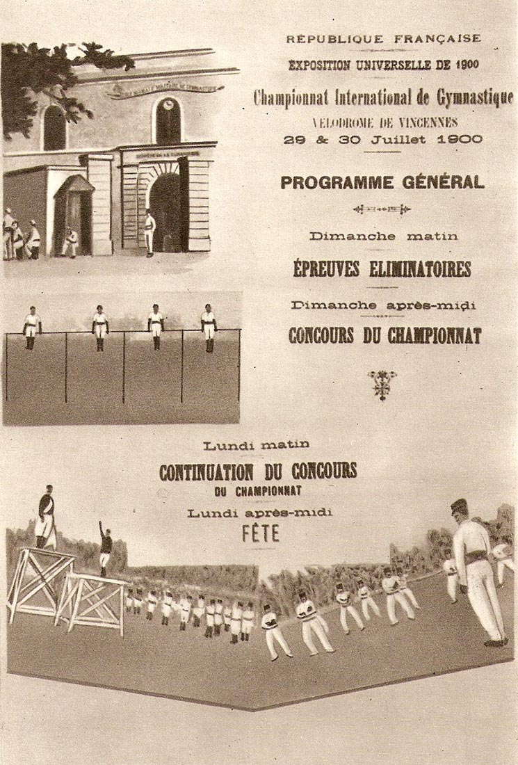 Poster for the international tournament in gymnastics at the Olympic Games 1900 in Paris print, reproduction, no restrictions on use